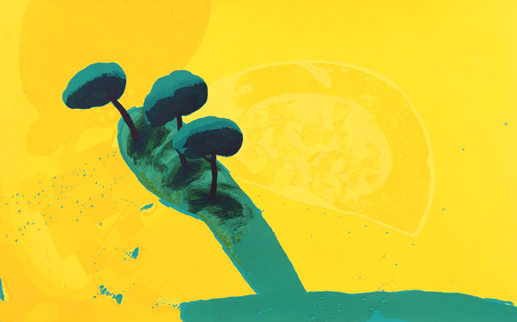 Ivo Křen, printmaker from the Czech Republic, Rape field, multicoloured linocut 75 x 120 cm, 2003